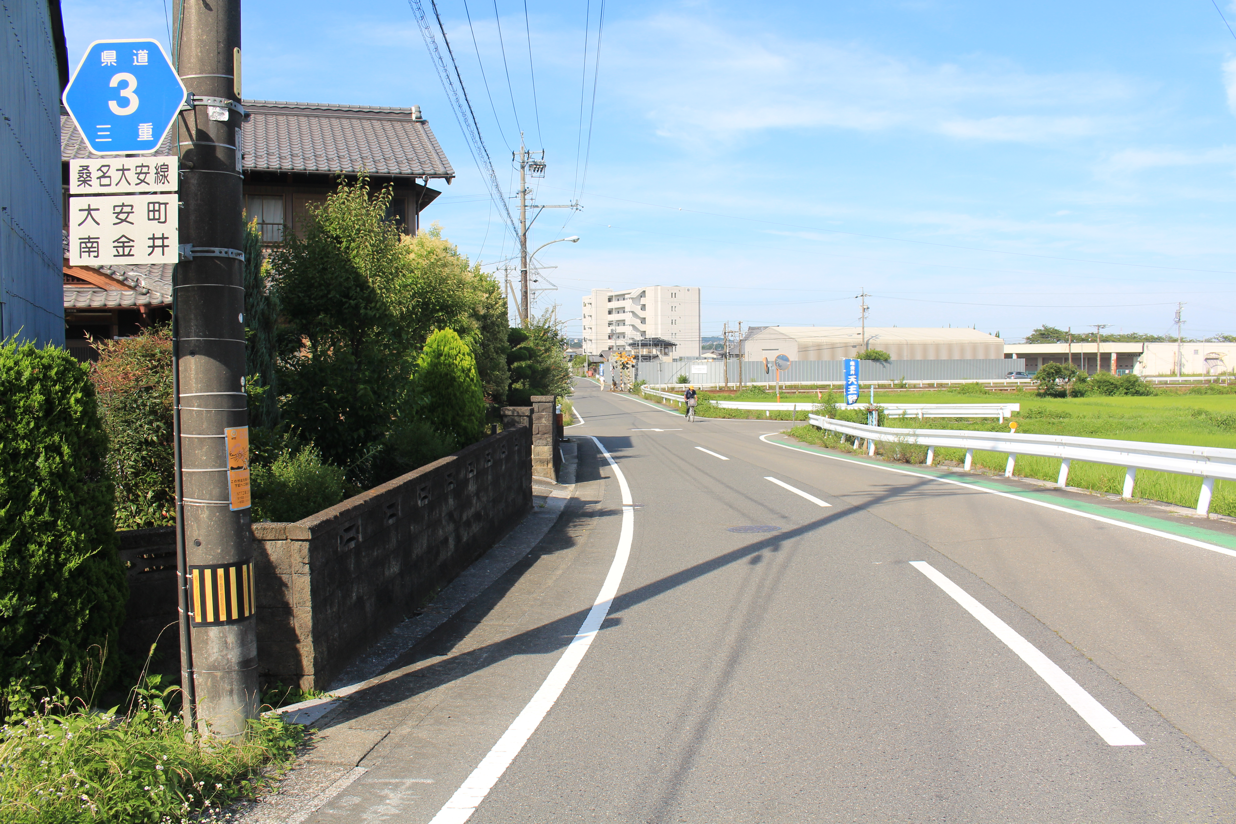 Mie Prefectural Road Route 3 in Minamikanai, Daian-cho, Inabe city, Mie prefecture, Japan.